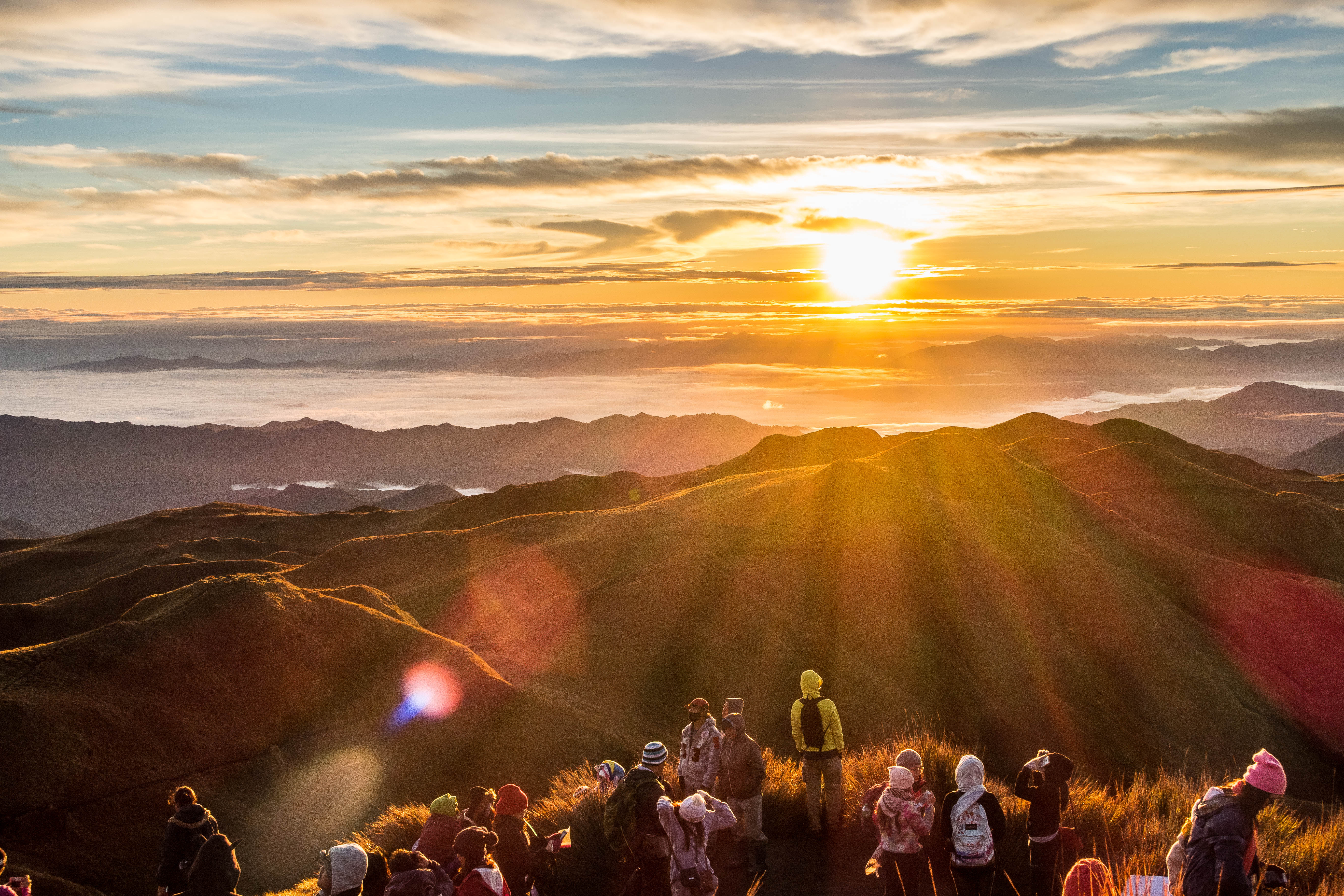 Mount Pulag is one of the most incredible tourist attractions which has engrossingly captivated millions because of its striking and awesome features that are genuinely incomparable from its external facade